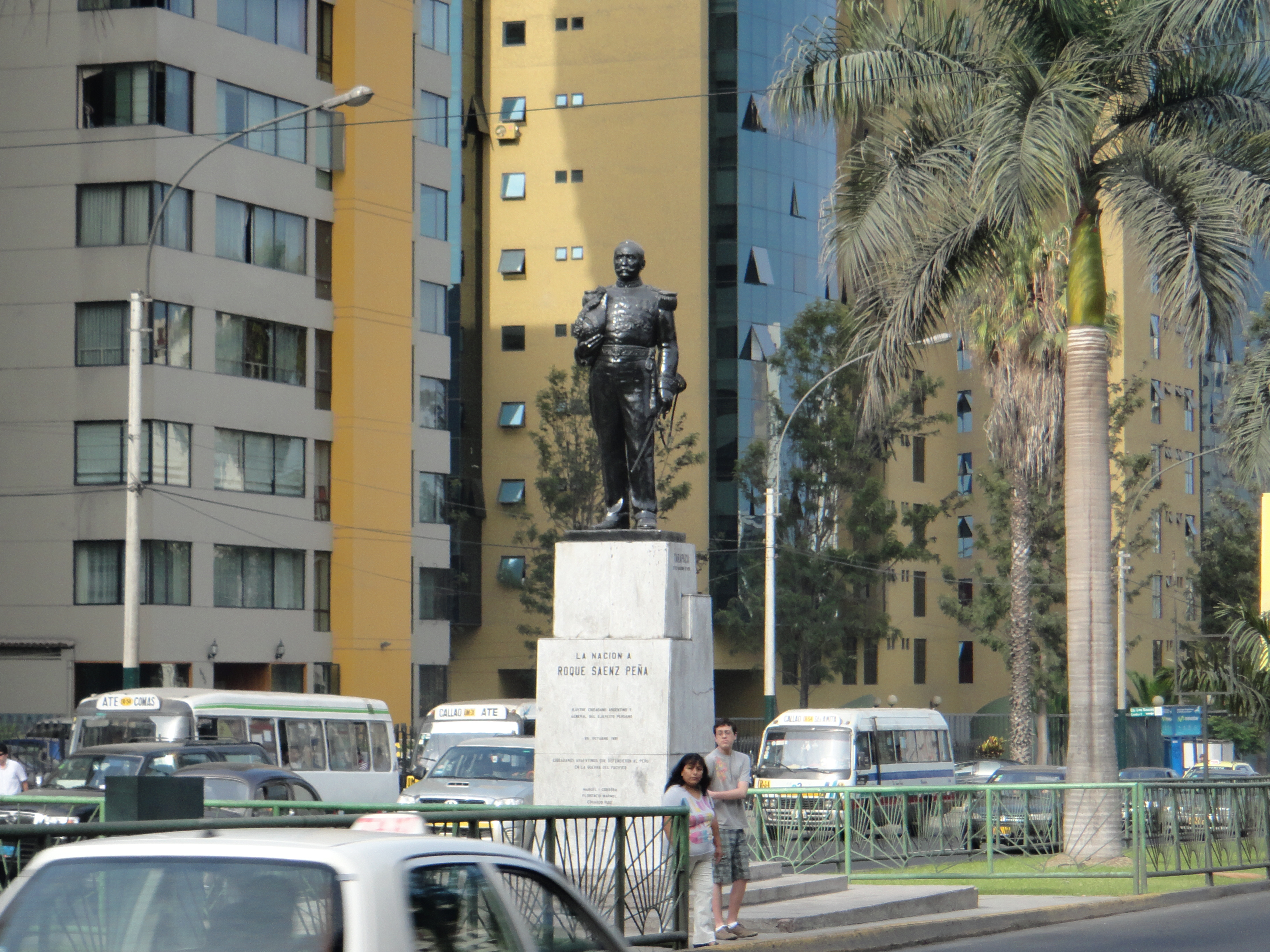 Statue of Roque Saenz Peña in Javier Prado Ave. of San Isidro District, Lima-Peru.